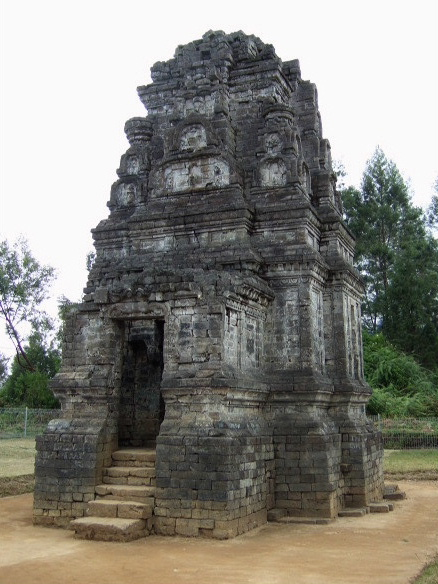 Bima temple (front view), Dieng Plateau, Central Java, Indonesia